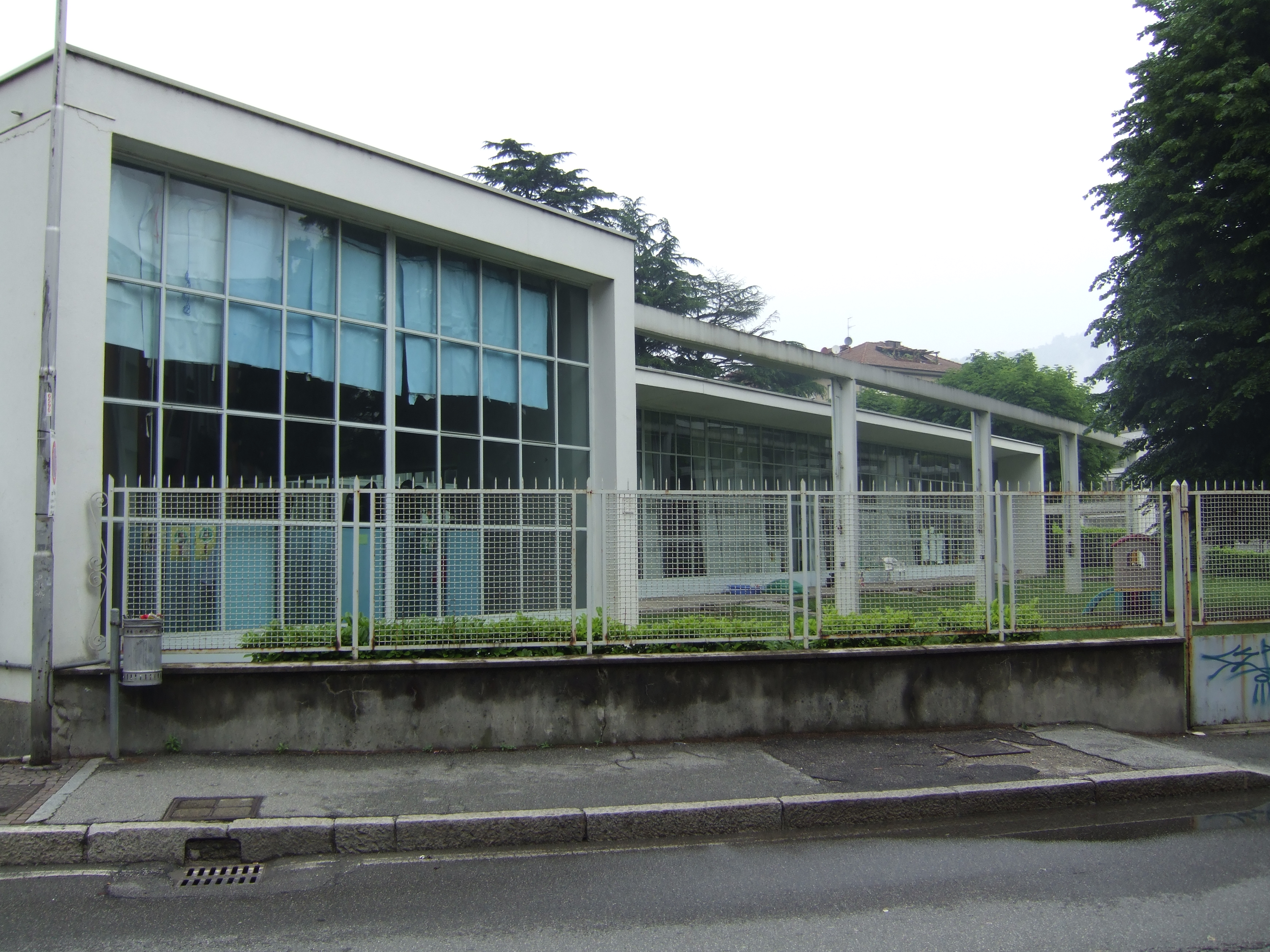 Nursery-school "Sant'Elia" by Giuseppe Terragni (1937)